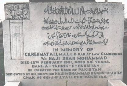 Photo of the grave of .